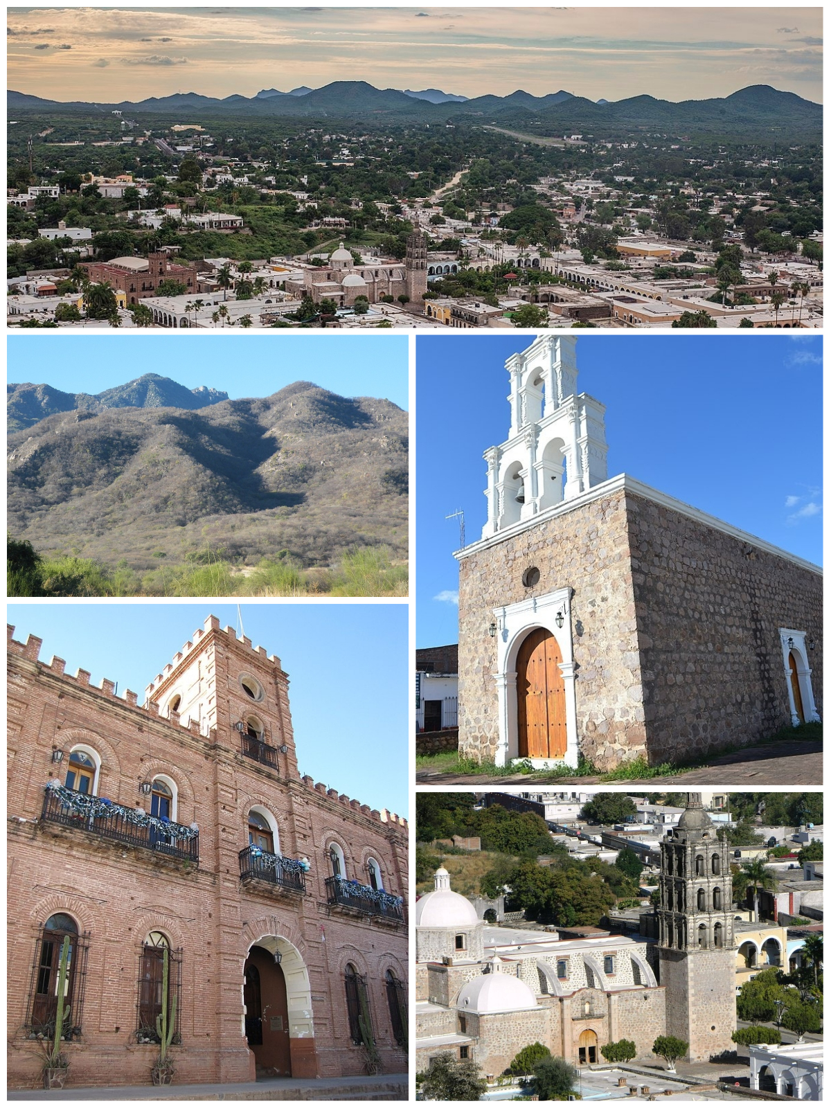 Collage Álamos